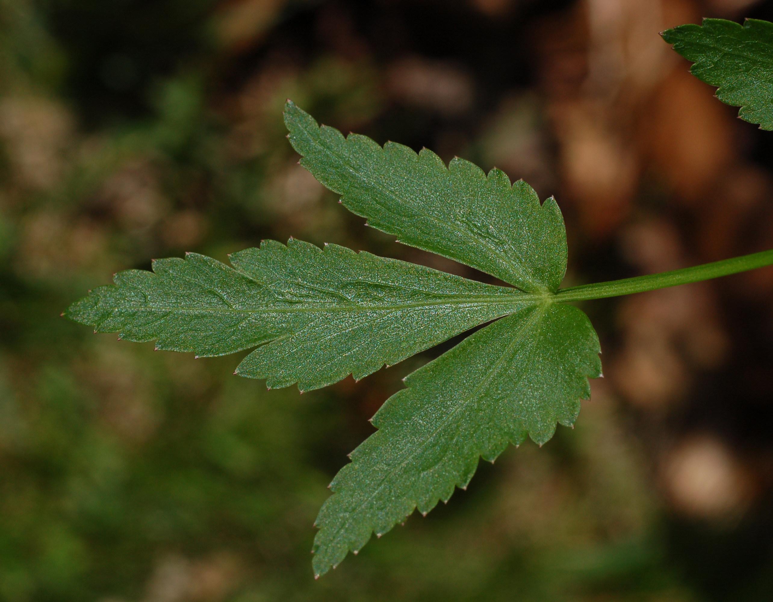 Photograph of a leaf on Golden Alexandersen (Zizia aurea en ). Photo taken at the Mt. Cuba Center where it was identified.